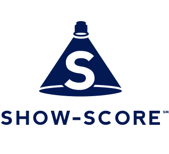 logo.